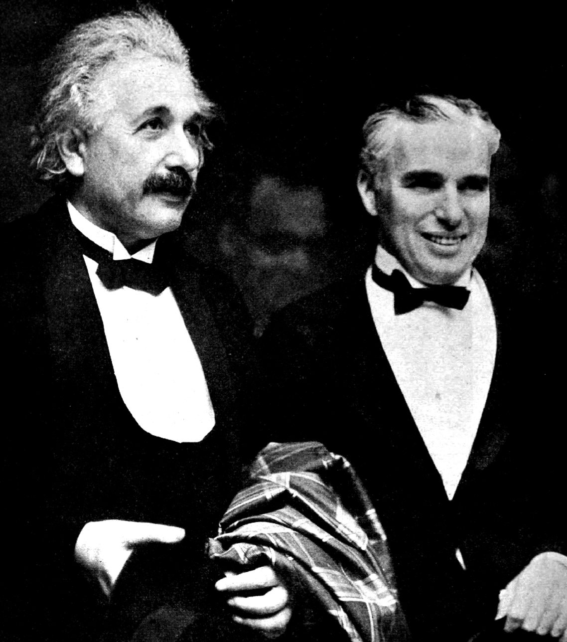 Modified version of same PD image. Photo of Albert Einstein and Charlie Chaplin at the Los Angeles premiere of the film City Lights. Einstein said Chaplin was the only person in Hollywood he wanted to meet. The Chaplins played host to the Einsteins at the film's premiere.